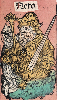 Nero from the Nuremberg Chronicle